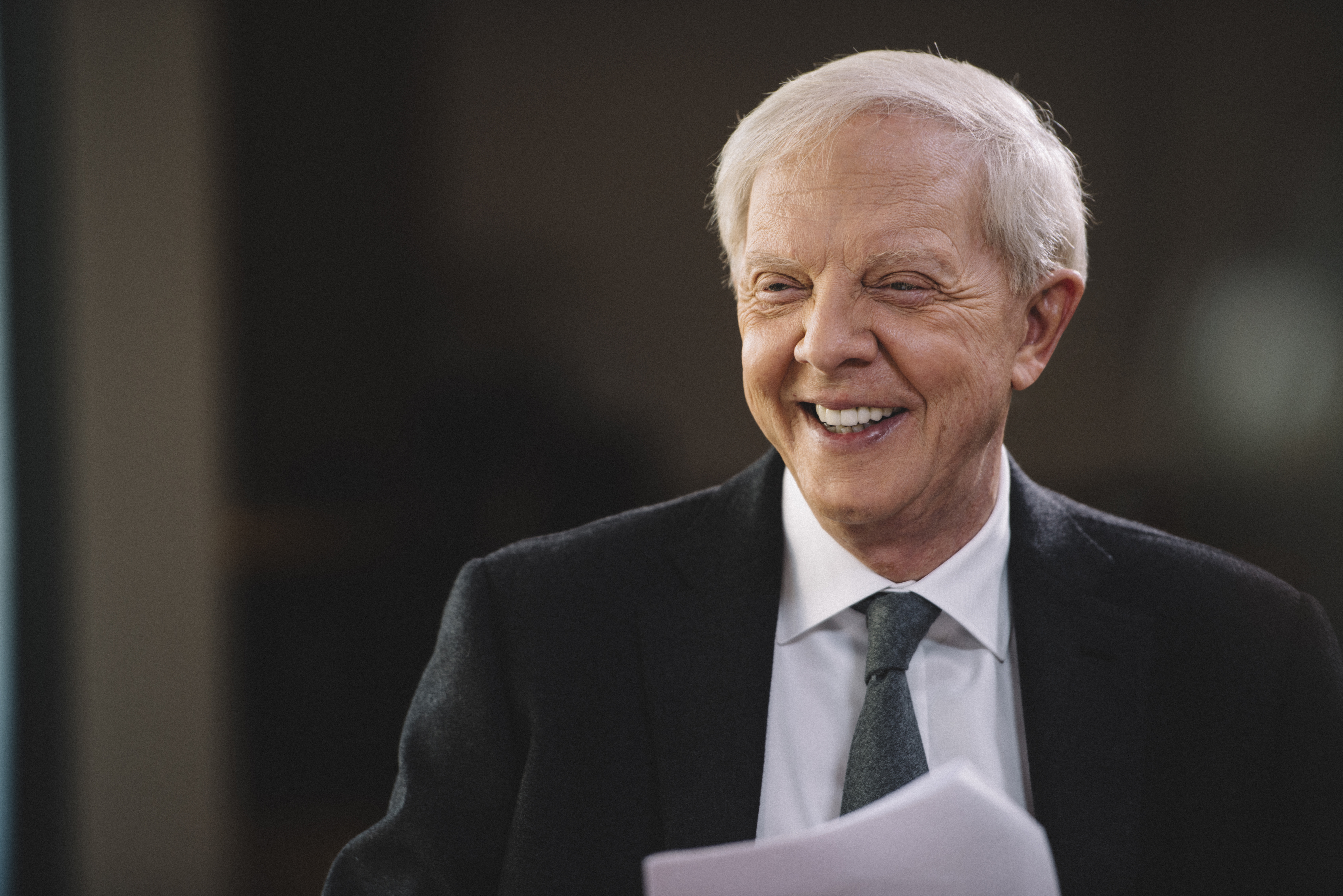 A photo of Bertil Hult taken in 2017